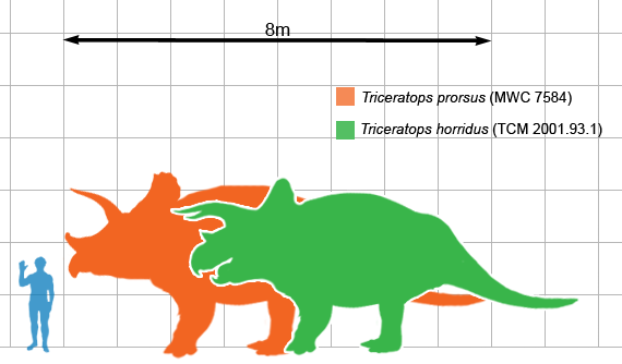 Size of Triceratops prorsus (orange, specimen number MWC 7584) and Triceratops horridus (green, specimen number TCM.2001.93.1) with a human for scale.